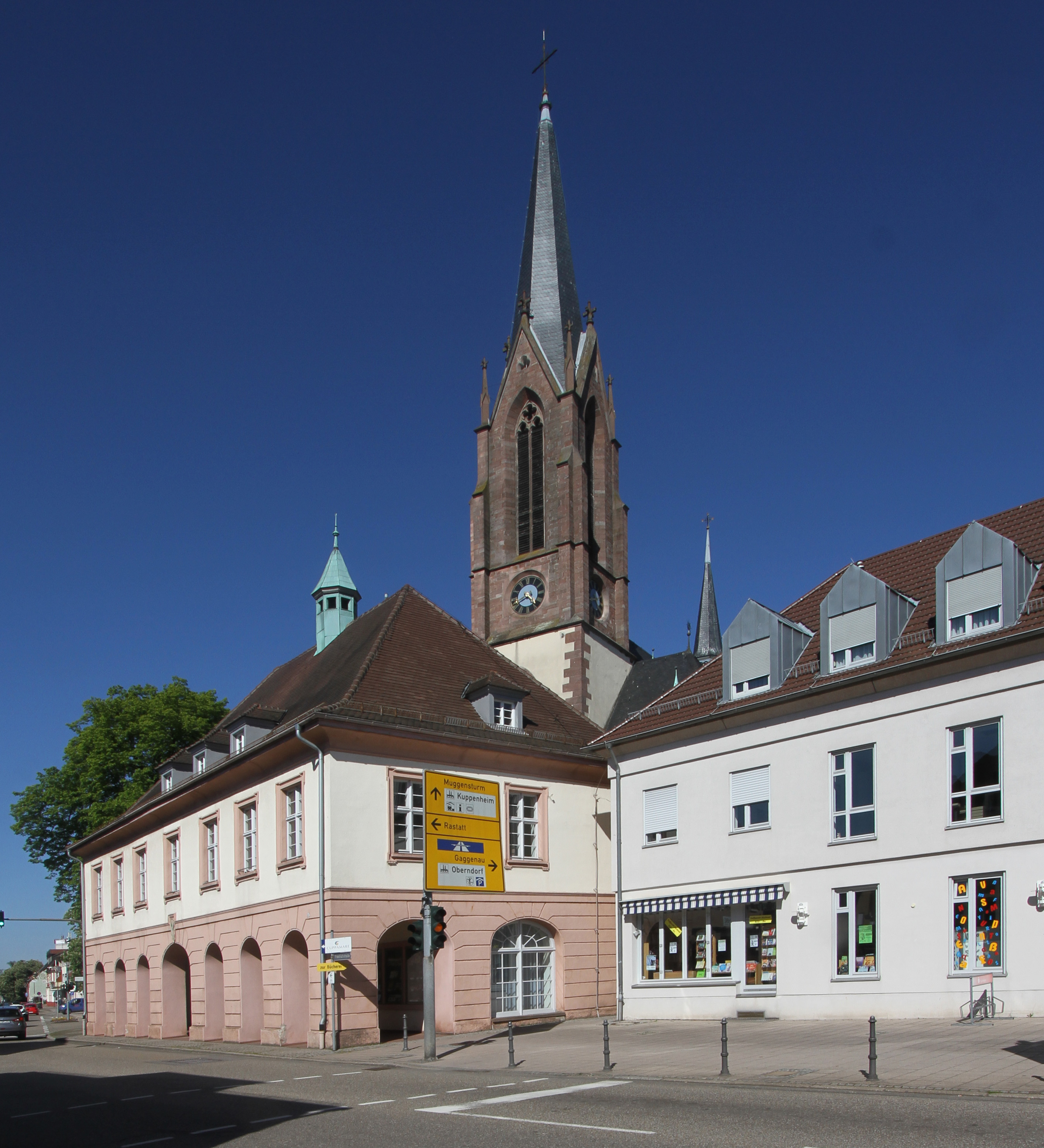 Old Town Hall in front of the church of Saint Sebastian in Kuppenheim.